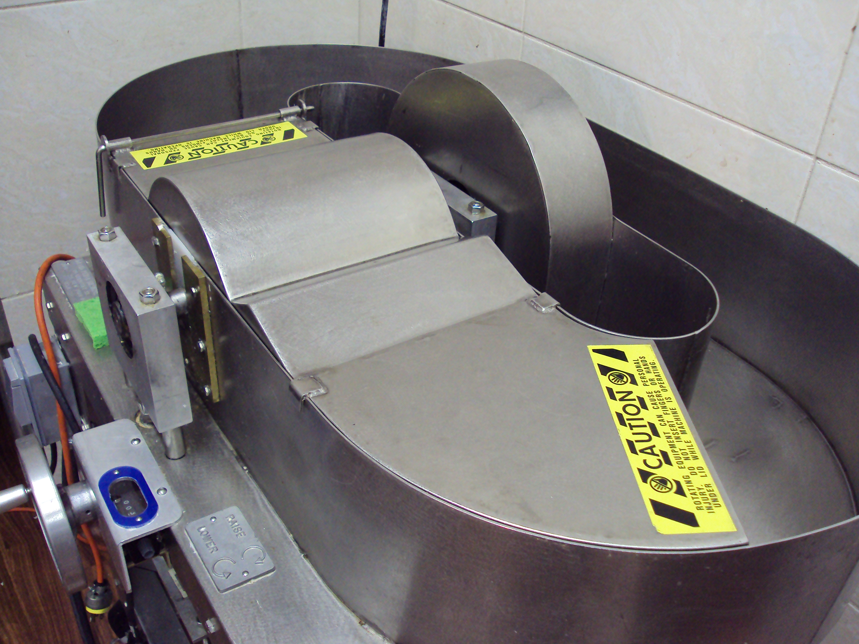 A Hollander beater as seen during a papermaking workshop at the Institute of Paper Science and Technology (IPST) at the Georgia Institute of Technology.